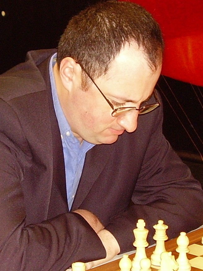 B. Gelfand at Corus tournament, January 2006. Own photo.